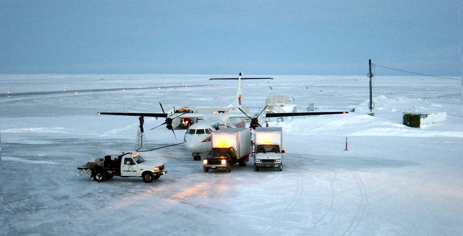 A cargo plane is unloaded at the Clyde River airport, Nunavut, Canada, on December 1, 2004.